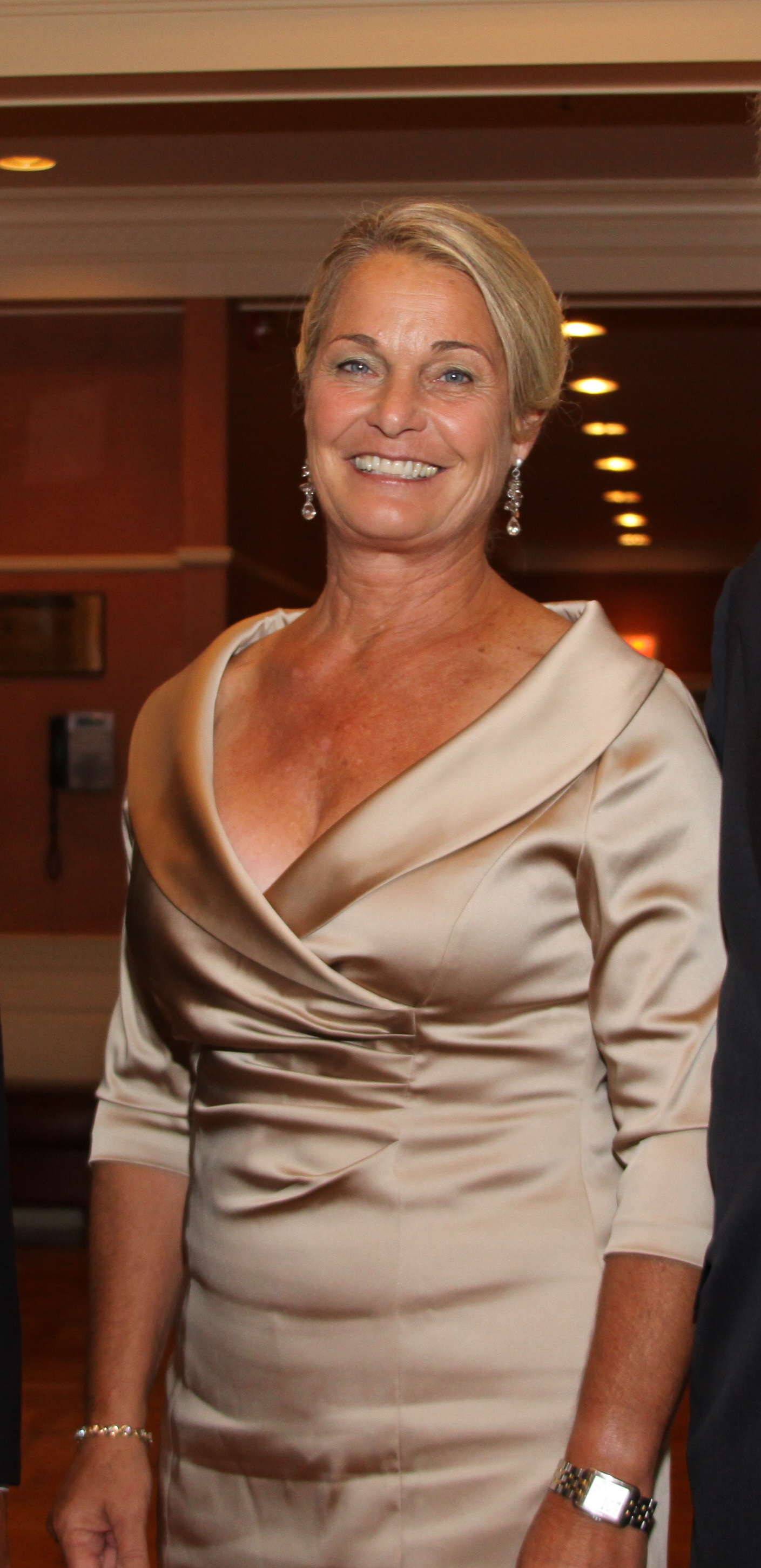 Part of a photo from an awesome fundraiser luncheon with then Candidate Ann Marie Buerkle and future Speaker of the House John Boehner in Skaneateles, New York.